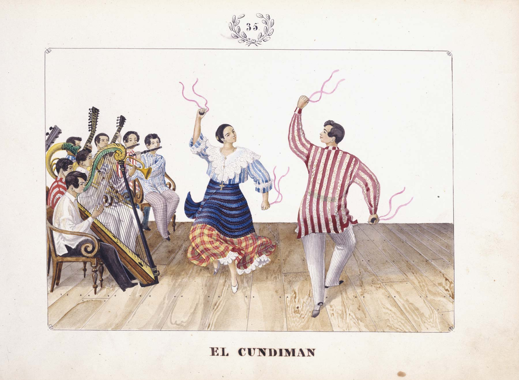 "El Cundiman" Tipos del País (19th Century Watercolor) by José Honorato Lozano